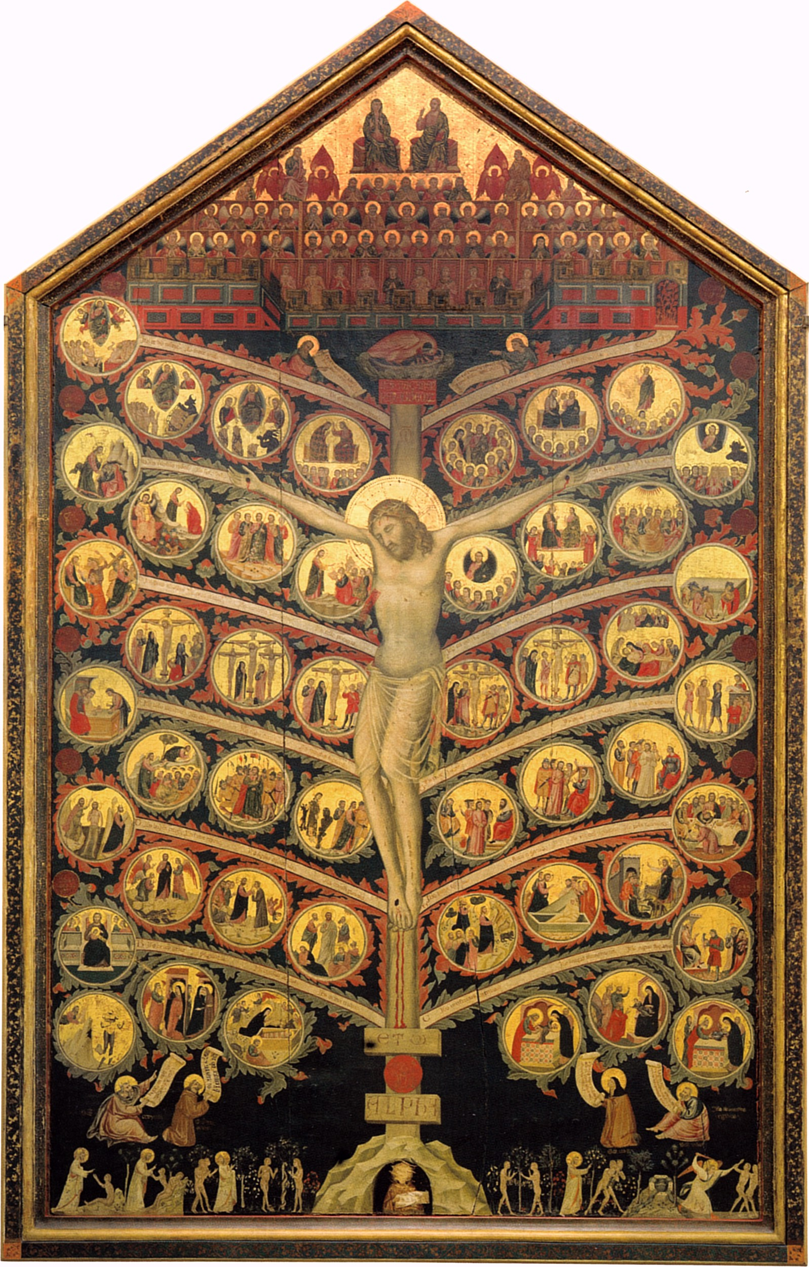 Painting of the Tree of Life, inspired by Saint Bonaventure's The Tree of Life (Lignum vitae). This painting is the one for which Pacino is best known, and is also one of his earliest works.